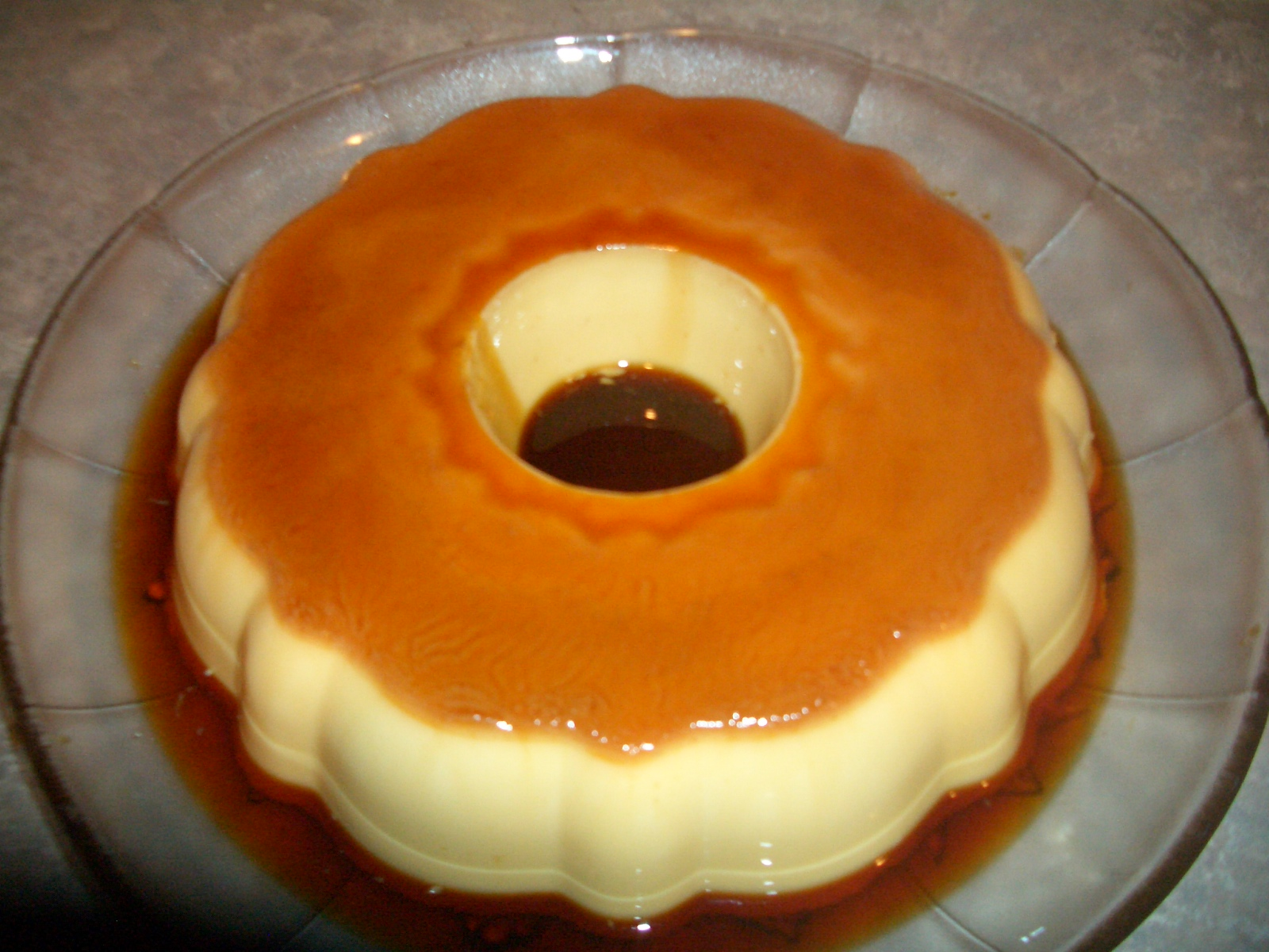 A flan